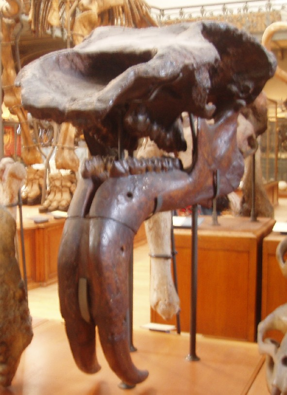 Mandible of Deinotherium giganteum.